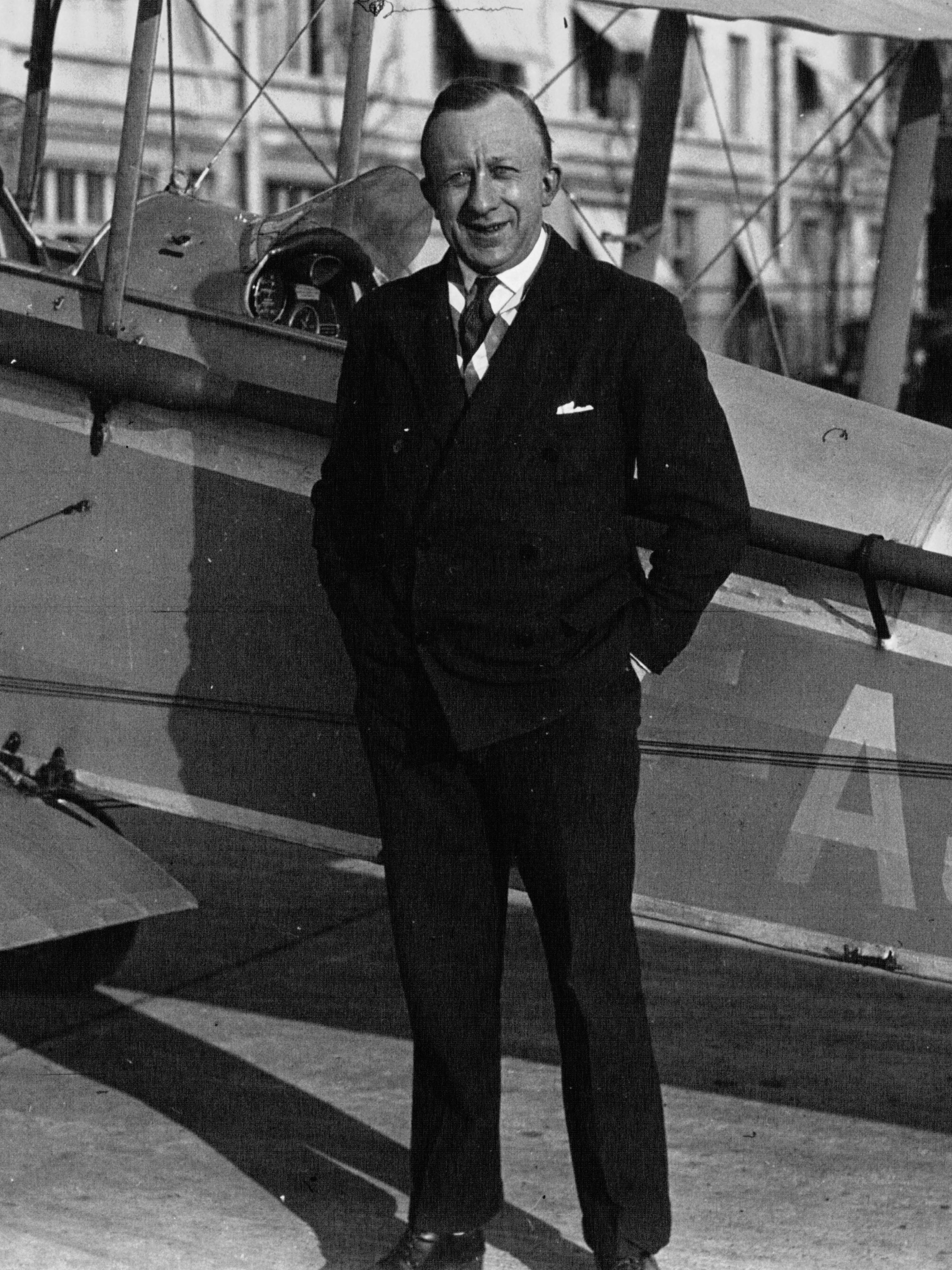 French aviator and Nazi collaborator Max Knipping (1892-1947).